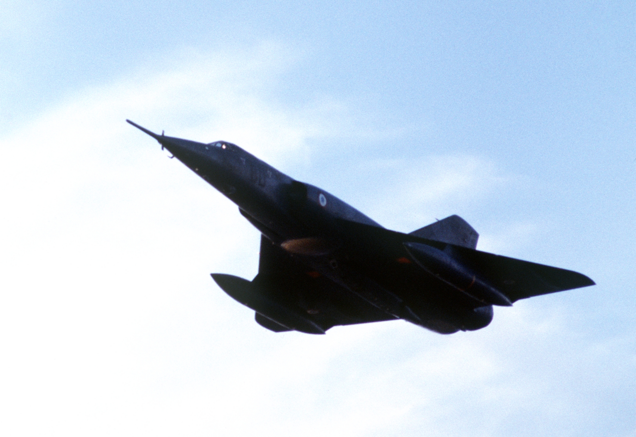 A French Air Force Dassault Mirage IV A aircraft from Escadron de bombardement EB 1/91 "Gascogne" (serial 31-BD) based at Base aérienne 118 Mont-de-Marsan, Landes, Aquitaine (France), in low-level flight in 1986.